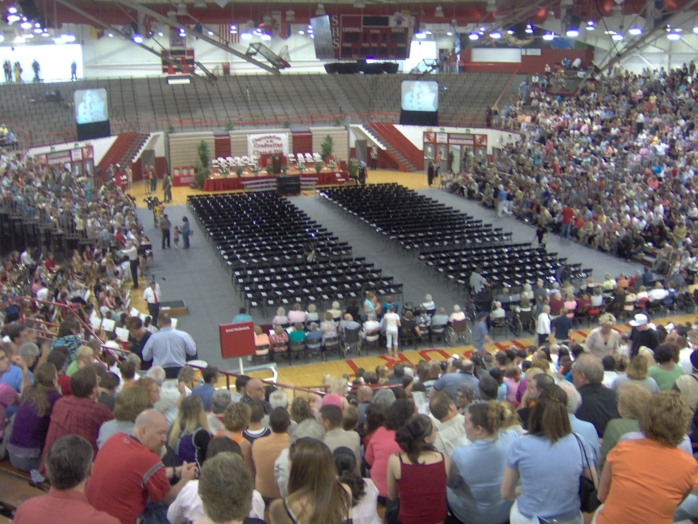 Interior of the gymnasium at the Indianapolis-area Southport High School in Perry Township, Marion County, Indiana, United States. Picture taken at the graduation ceremony for the class of 2006.